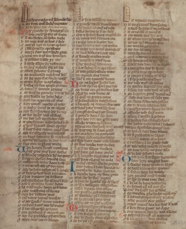 Excerpt from "de Vierde Partie" of the "Spiegel Historiael" from the "Rijmbijbel". Manufactured in the 14th century.